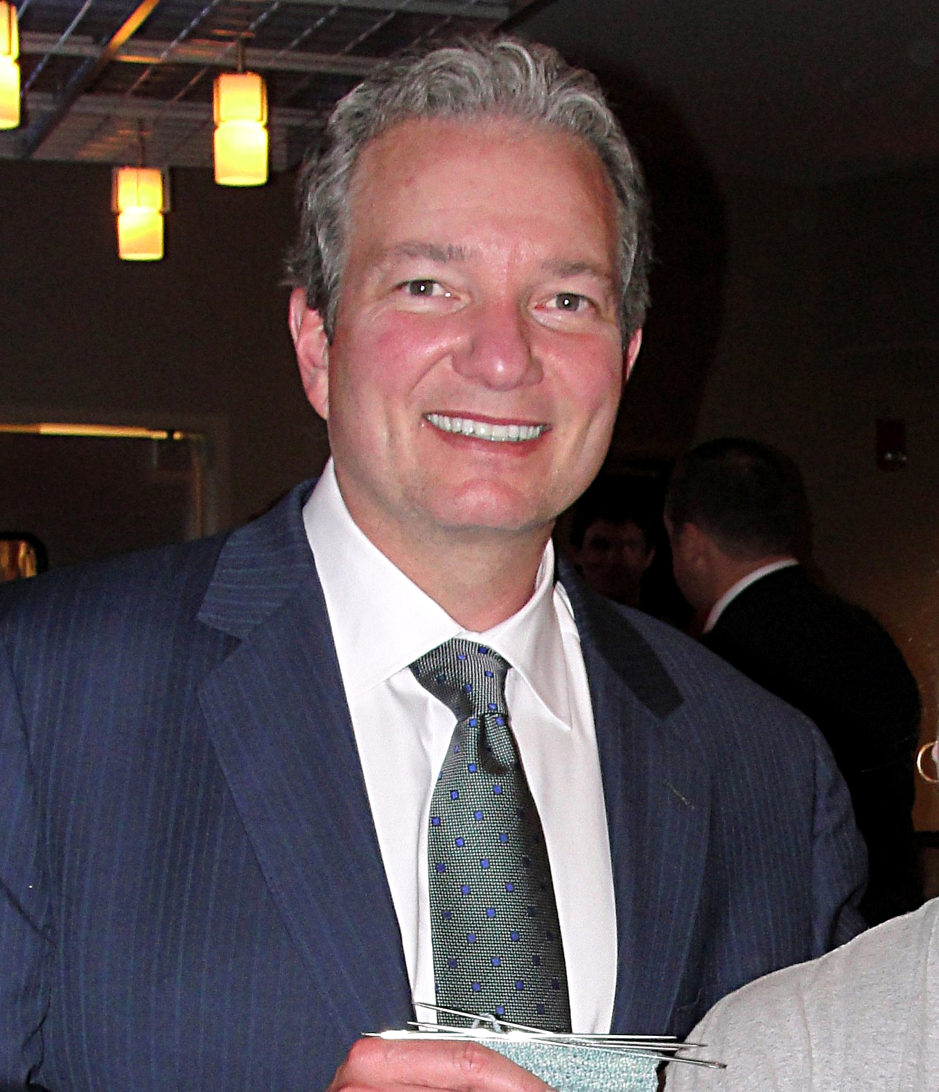 Pittsburgh Penguins general manager Ray Shero photographed in 2012.